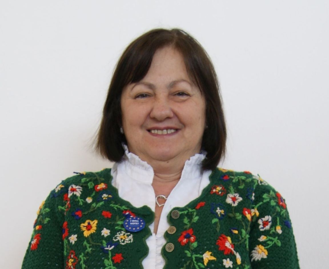 Olga Pircher, Photo taken on the occasion of the event on April 6, 2019 in Friedrichshafen the Socialist Bodensee-International (SBI) in the Graf Zeppelin House.